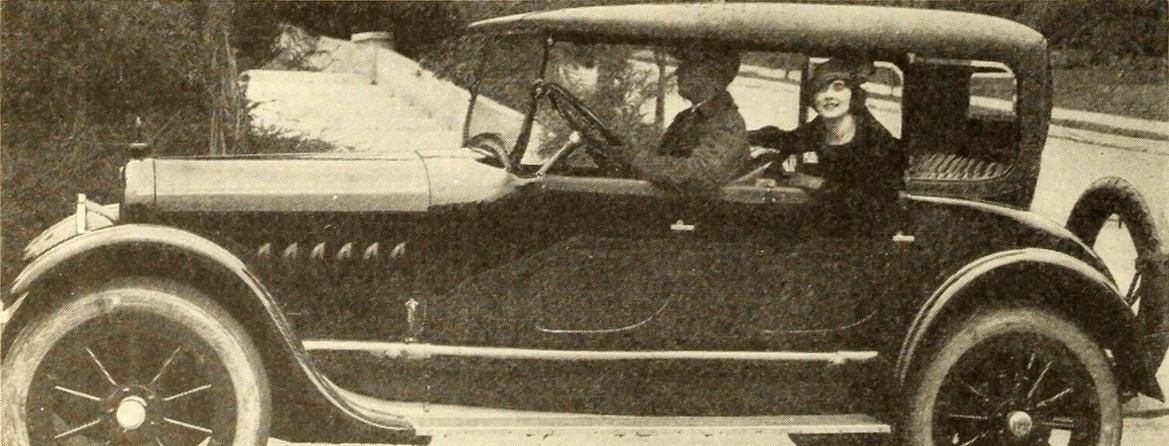 Actress Betty Blyth and her red Peerless Sport, page 68 of the September 1921 Photoplay.